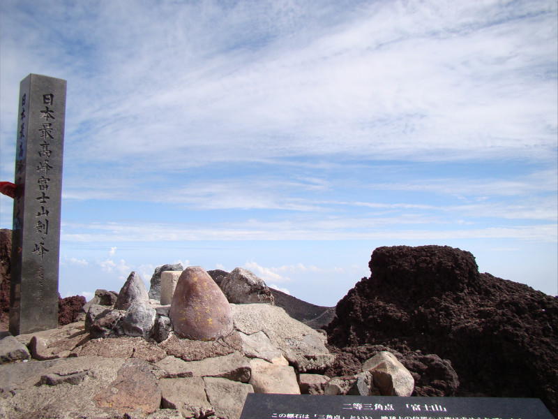 Kengamine, the highest place of Japan